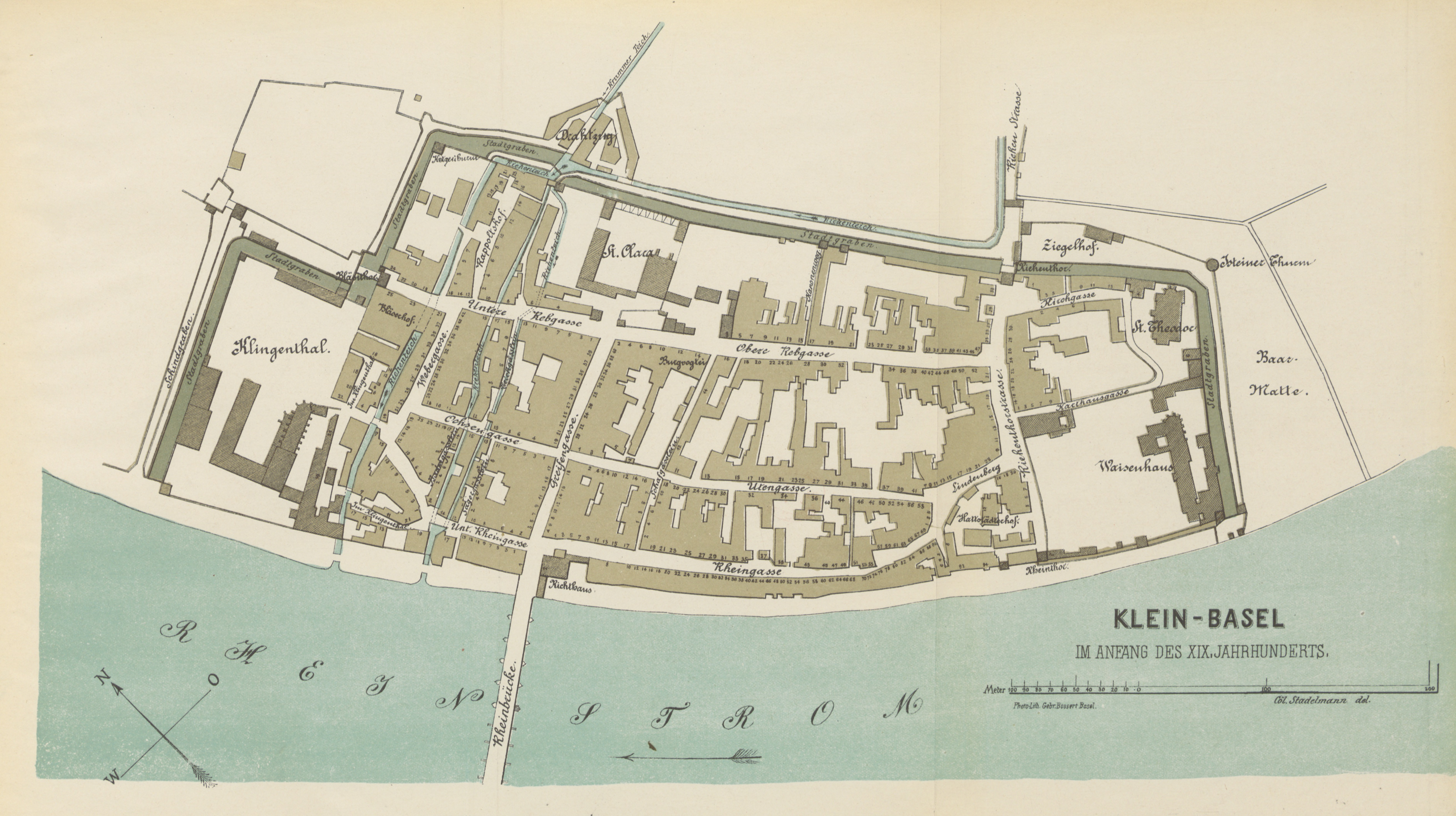 View this map on the BL Georeferencer service. Image taken from: Title: "Historisches Festbuch zur Basler Vereinigungsfeier, 1892. [With illustrations.]", "Appendix" Shelfmark: "British Library HMNTS 10196.f.17." Page: 353 Place of Publishing: Basel Date of Publishing: 1892 Issuance: monographic Identifier: 000220903 Explore: Find this item in the British Library catalogue, 'Explore'. Download the PDF for this book (volume: 0) Image found on book scan 353 (NB not necessarily a page number) Download the OCR-derived text for this volume: (plain text) or (json) Click here to see all the illustrations in this book and click here to browse other illustrations published in books in the same year. Order a higher quality version from here.